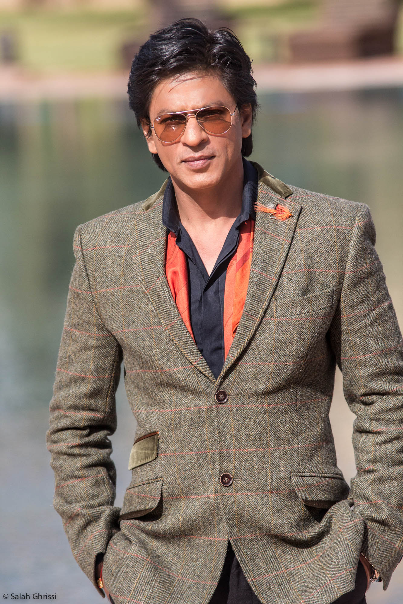 Sharukhan in Marrakech film festival (2012)